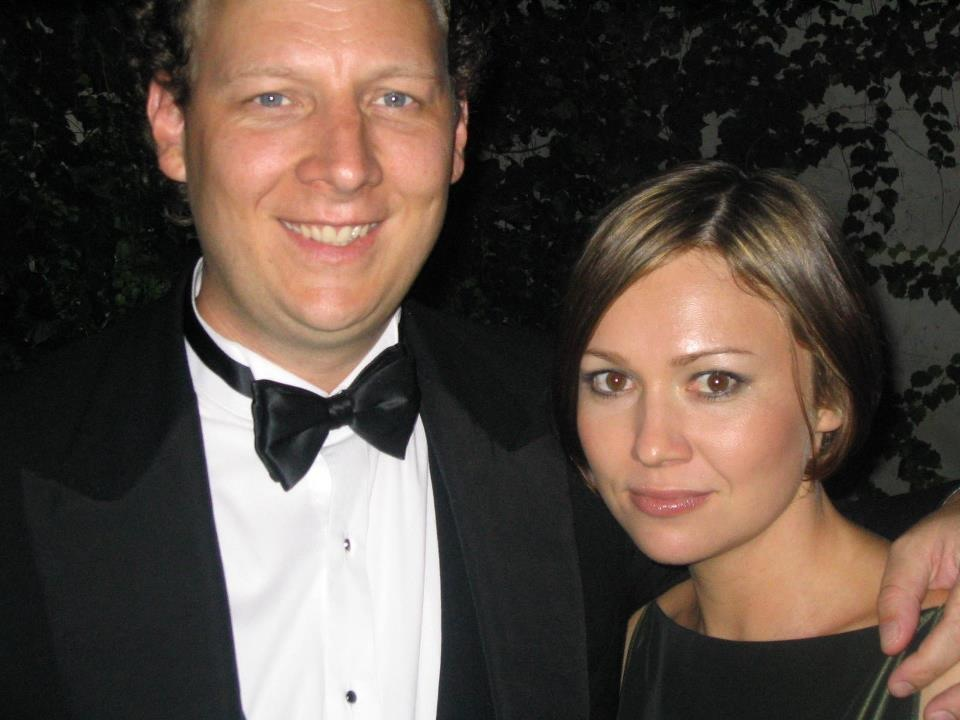 2008 Emmy